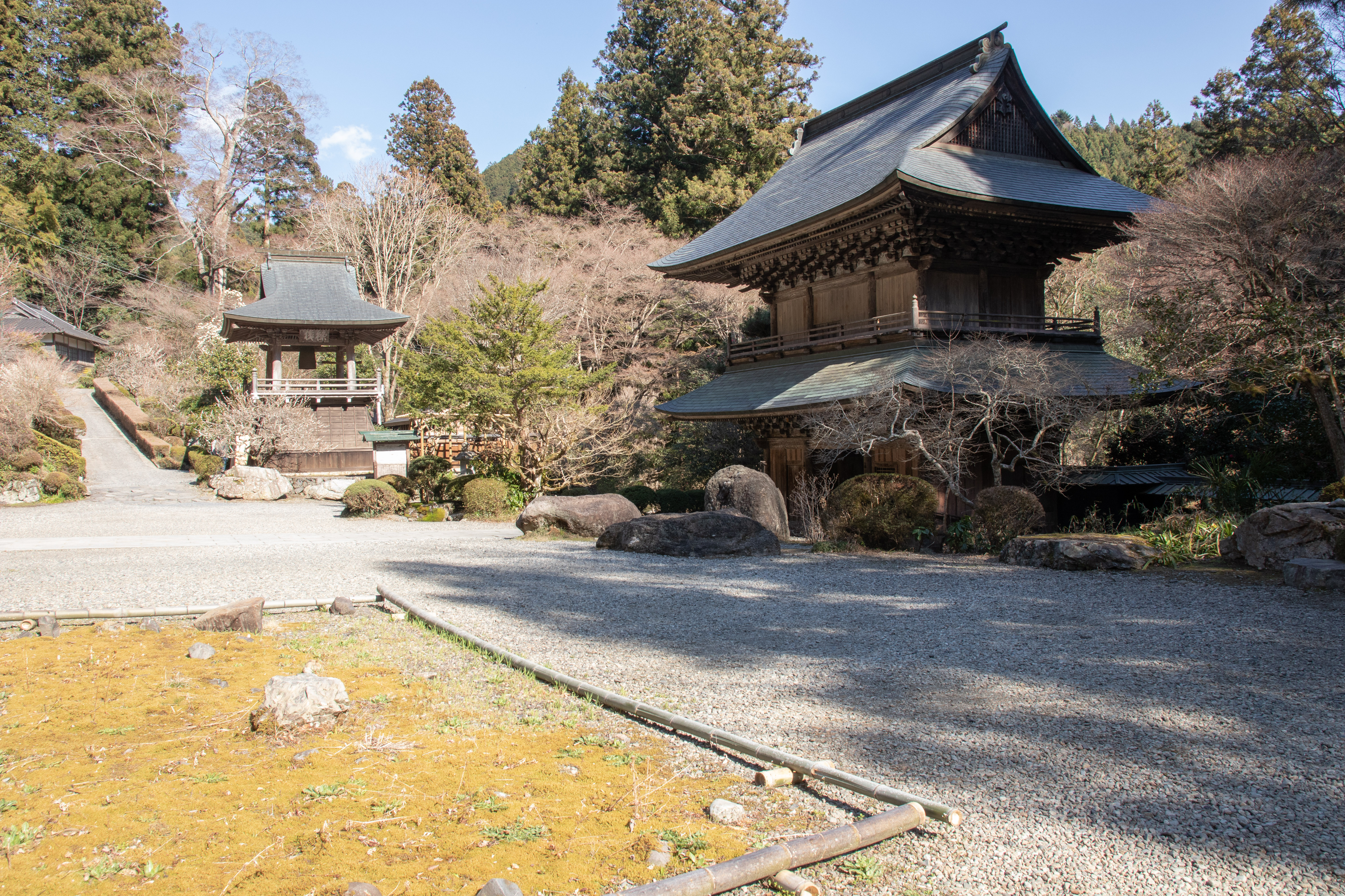 Tozan Ungan-ji Temple, Otawara City, Tochigi, Japan Canon EOS 80D + Sigma 17-70mm F2.8-4 DC Macro OS HSM